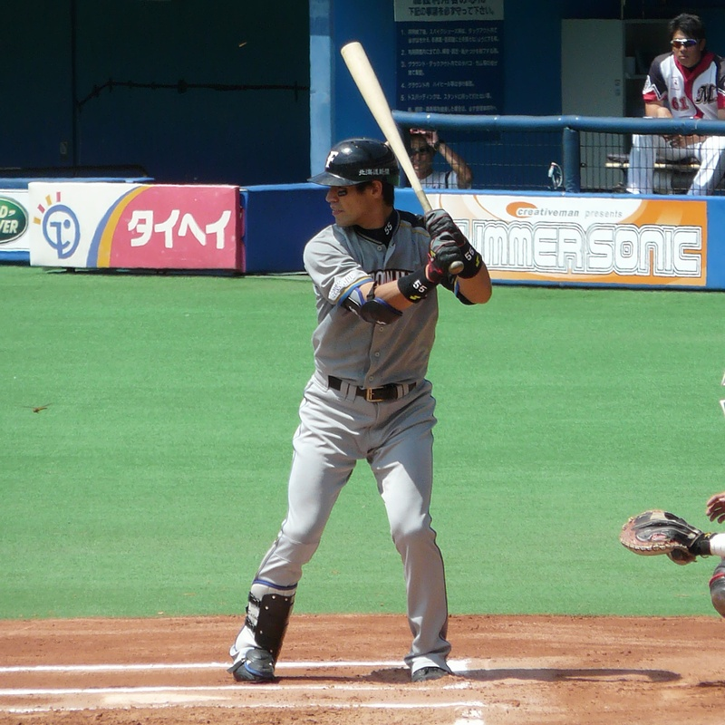 NF-Yoshihiro-Sato20090825